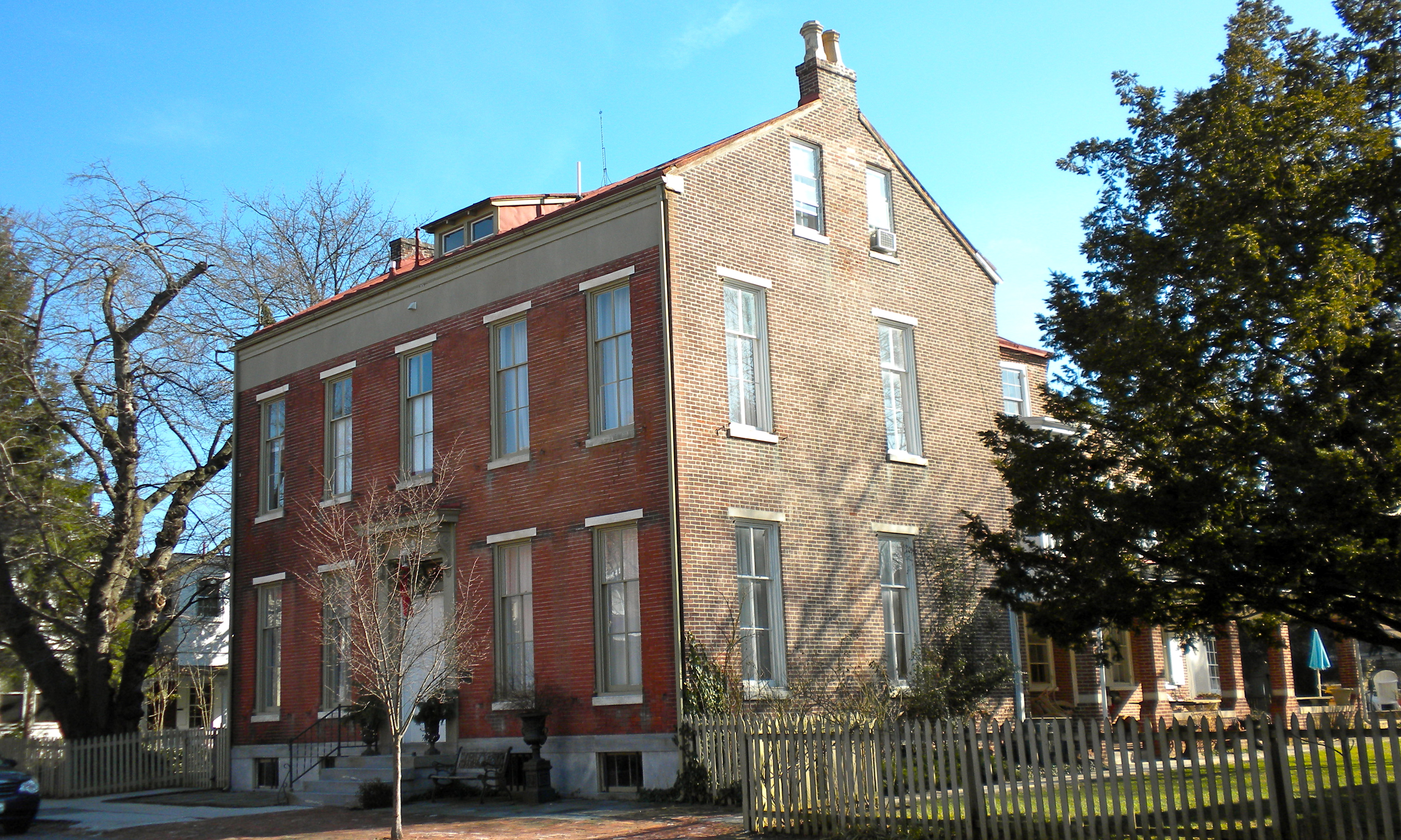 Butler House, 228 West Miner Street, West Chester, PA. On NRHP. I donate this photo to the public domain